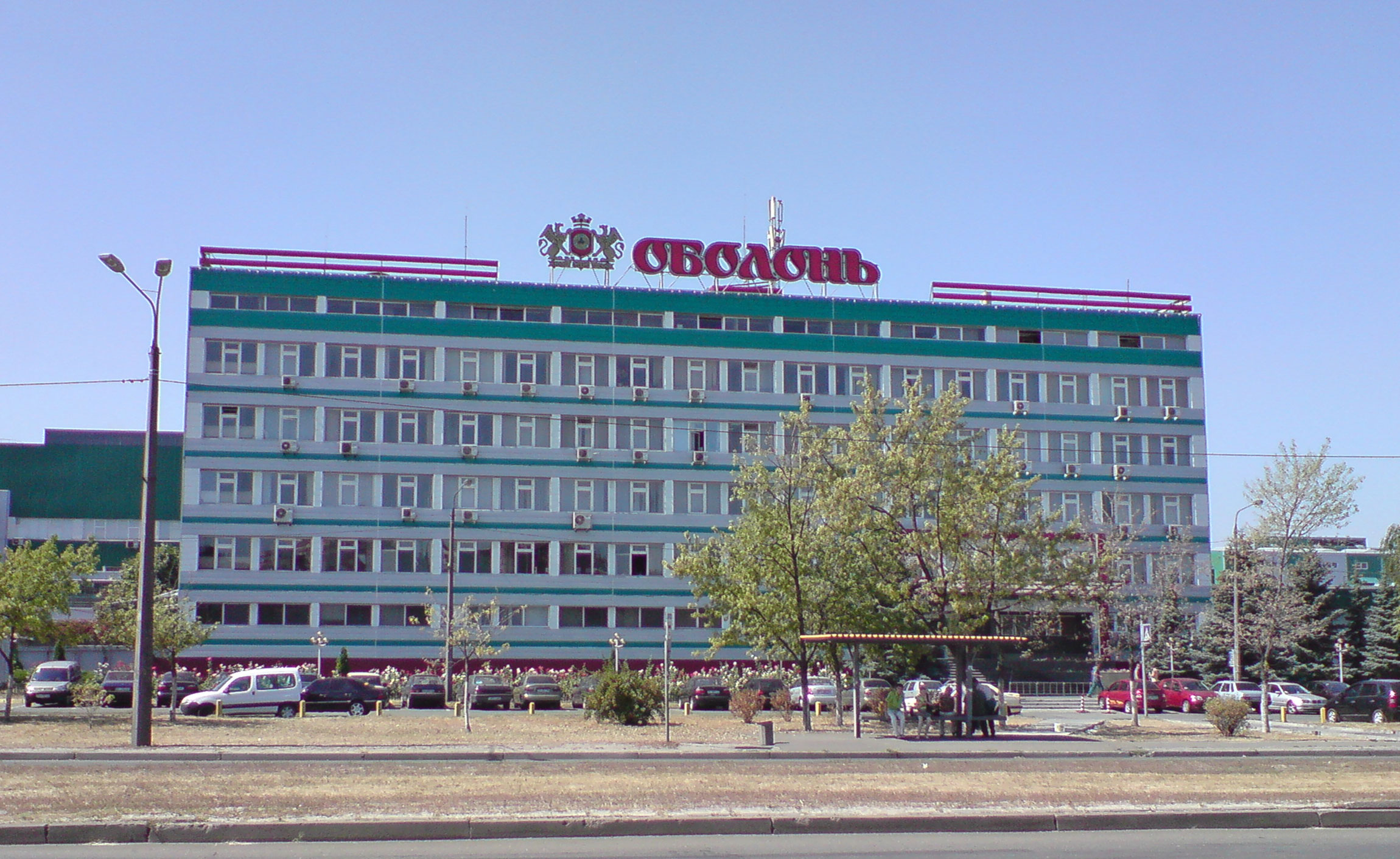 The Ukrainian brewery Obolon's main plant in Kiev.